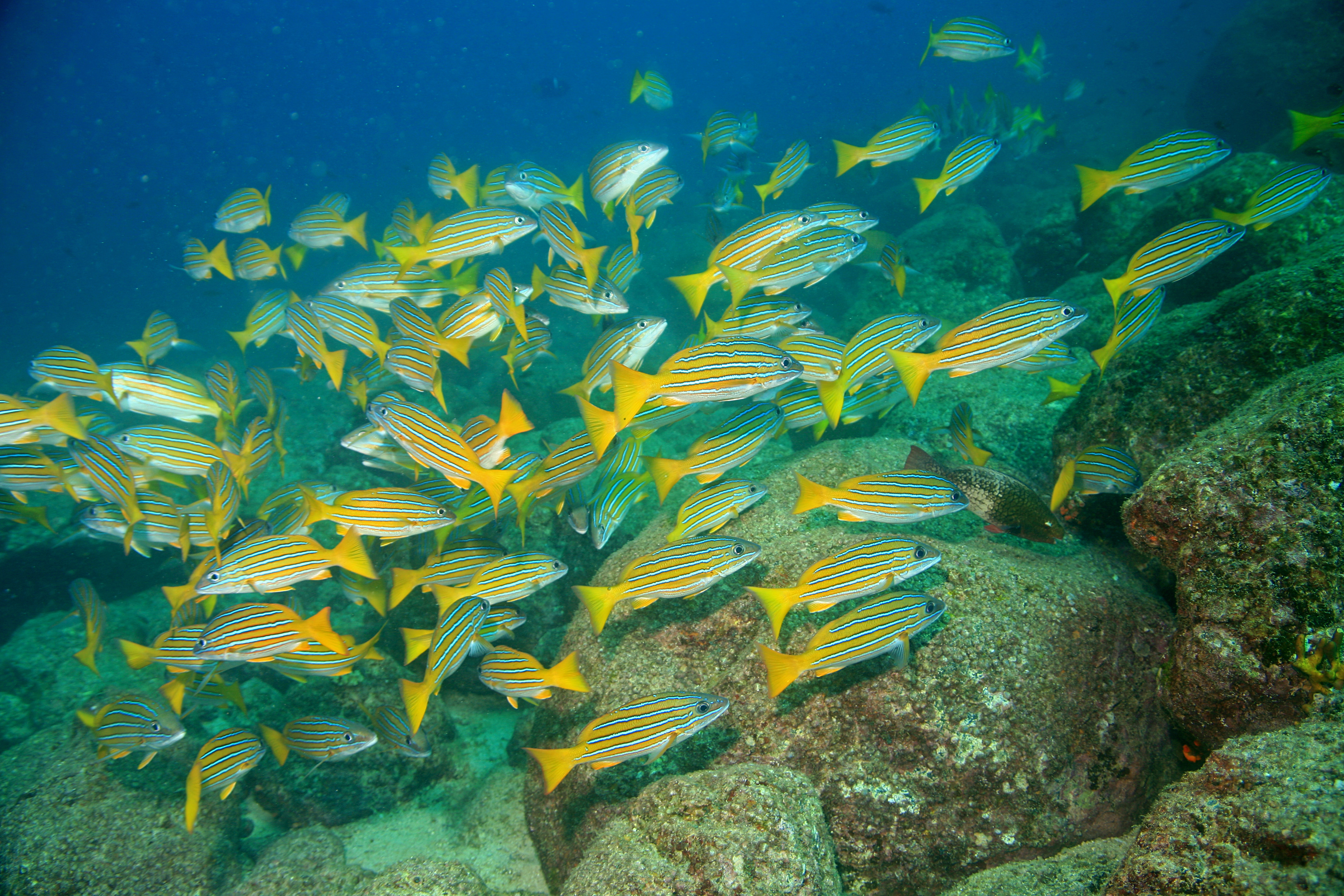 A school of Blue and Gold Snappers (Lutjanus viridis) photographed at Frijoles dive site in Coiba National Park, Panama.